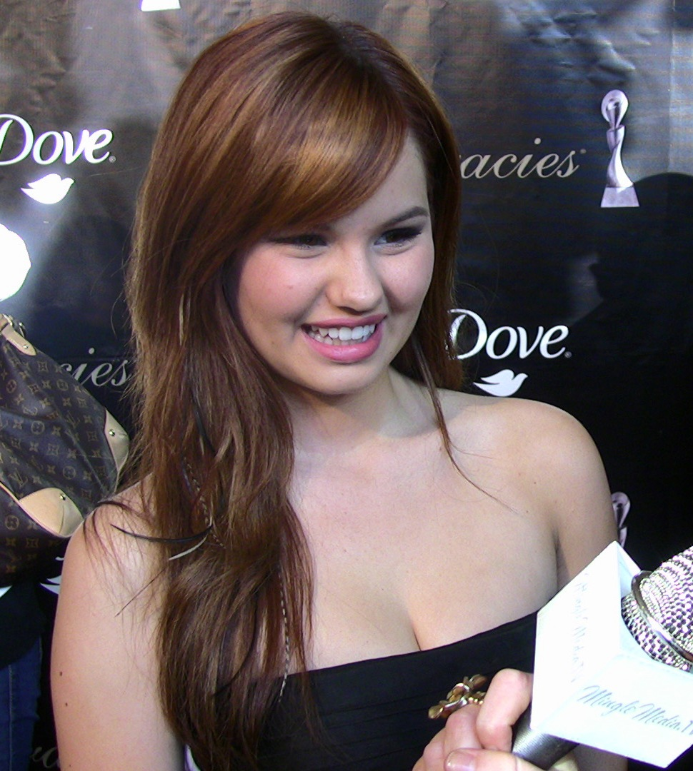 Debby Ryan at the 36th Annual Gracie Awards Gala